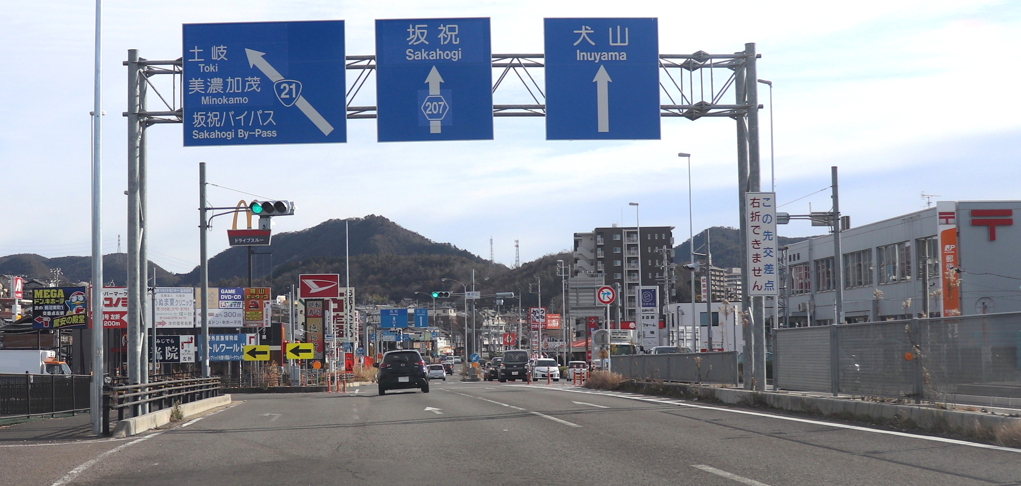 Route 21 and Gifu Prefectural Road Route 207 in Ubumahigashimachi, Kakamigahara, Gifu Prefecture, Japan. Canon EOS Kiss X9